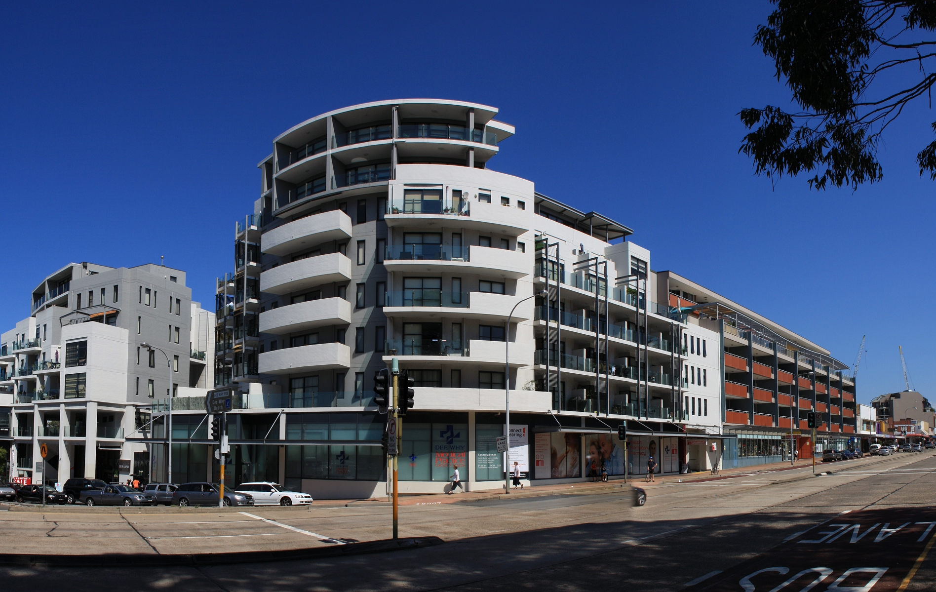 Dee Why, New South Wales